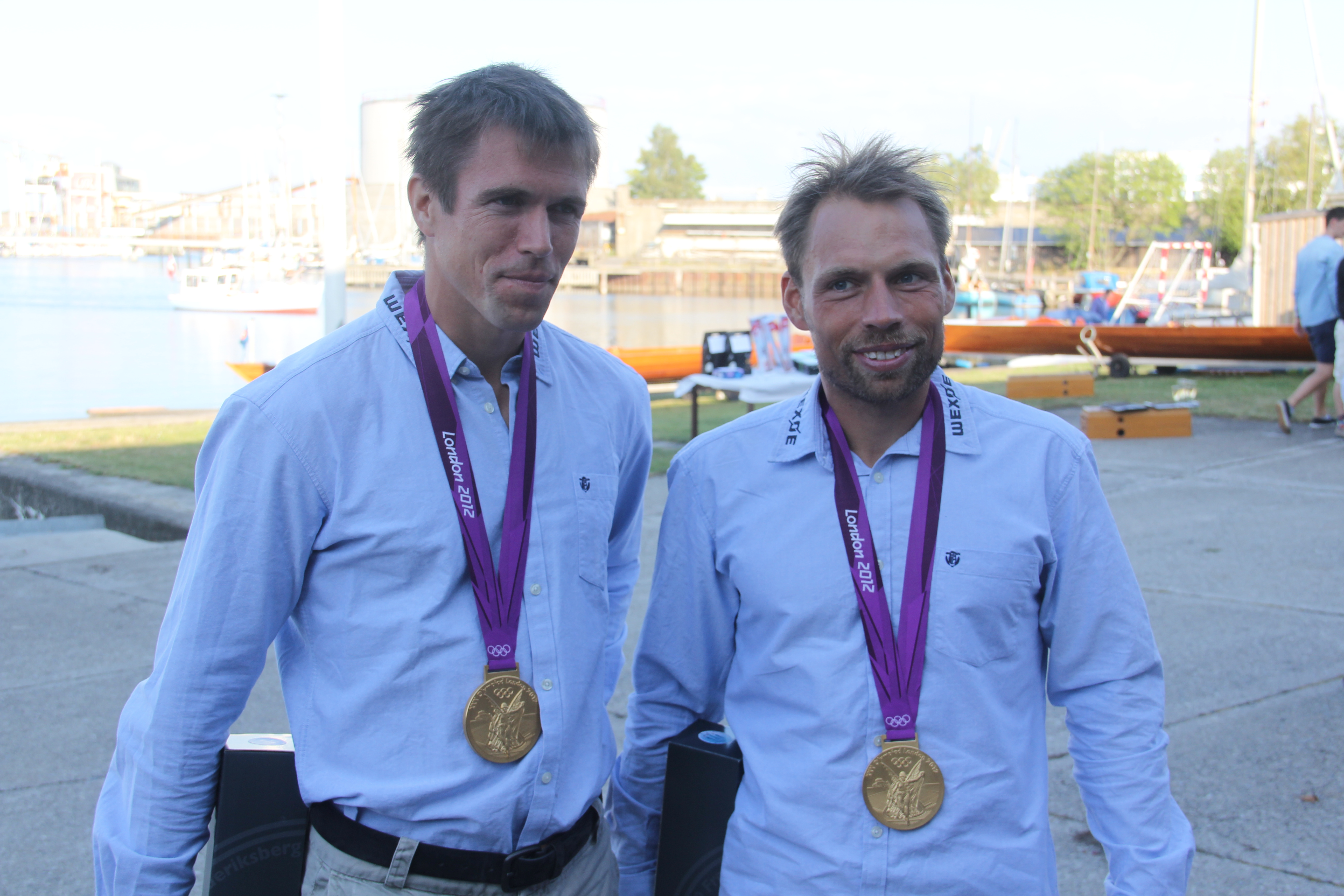 Mads Rasmussen and Rasmus Quist with gold medals from London 2012 Summer Olympics